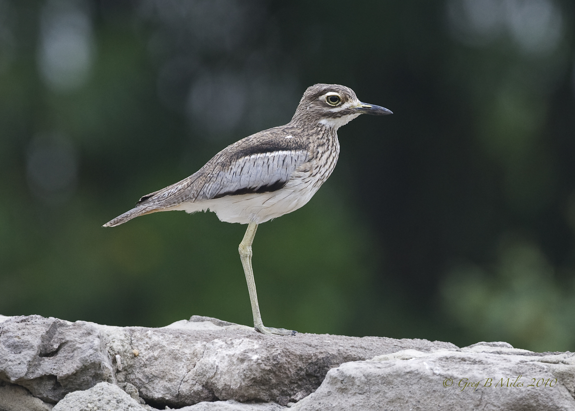 The Water thick-knee is a plover-like bird with a length of about 40 cm and a wingspan of about 200 cm when fully grown. It is found in the wetter eastern parts of Southern Africa. They are generally found along rivers or at dams, lakes, swamps or on beaches, where they feed on termites, insects, molluscs, small fish, and crustaceans. They are mainly nocturnal or crepuscular but may be quite vocal in full daylight, calling with a mournful “ti-ti-ti”. Although they can fly strongly, they seem to prefer to run than to fly when disturbed. The scientific name for the Water thick-knee is Burhinus vermiculatus; “Burhinus” from the Greek meaning a huge nose and “vermiculatus” from the Latin for vermiculated (which, in simple English means “decorated with wormlike tracery or markings”). According to its name, then, a bird with a large beak and which is decorated with wormlike tracery or markings. Info. from The Wilkinson's World of Adventure website.